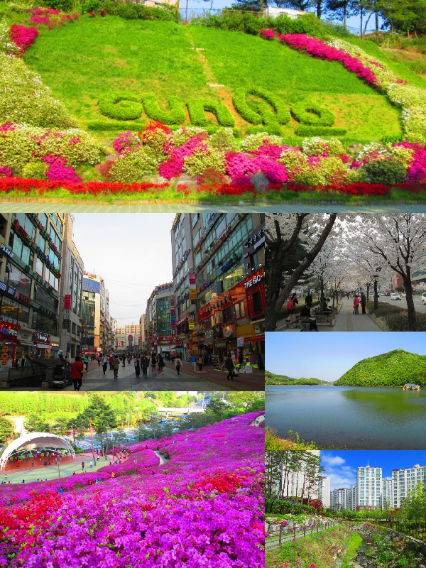 Various scenes of the city of Gunpo, South Korea. Clockwise from top left: City logo on a hillside near Surisan Station, cherry blossoms in Geumjeong-dong, Banwol Lake, apartment complex in Bugok-dong, Royal Azaleas Hill, downtown Sanbon.